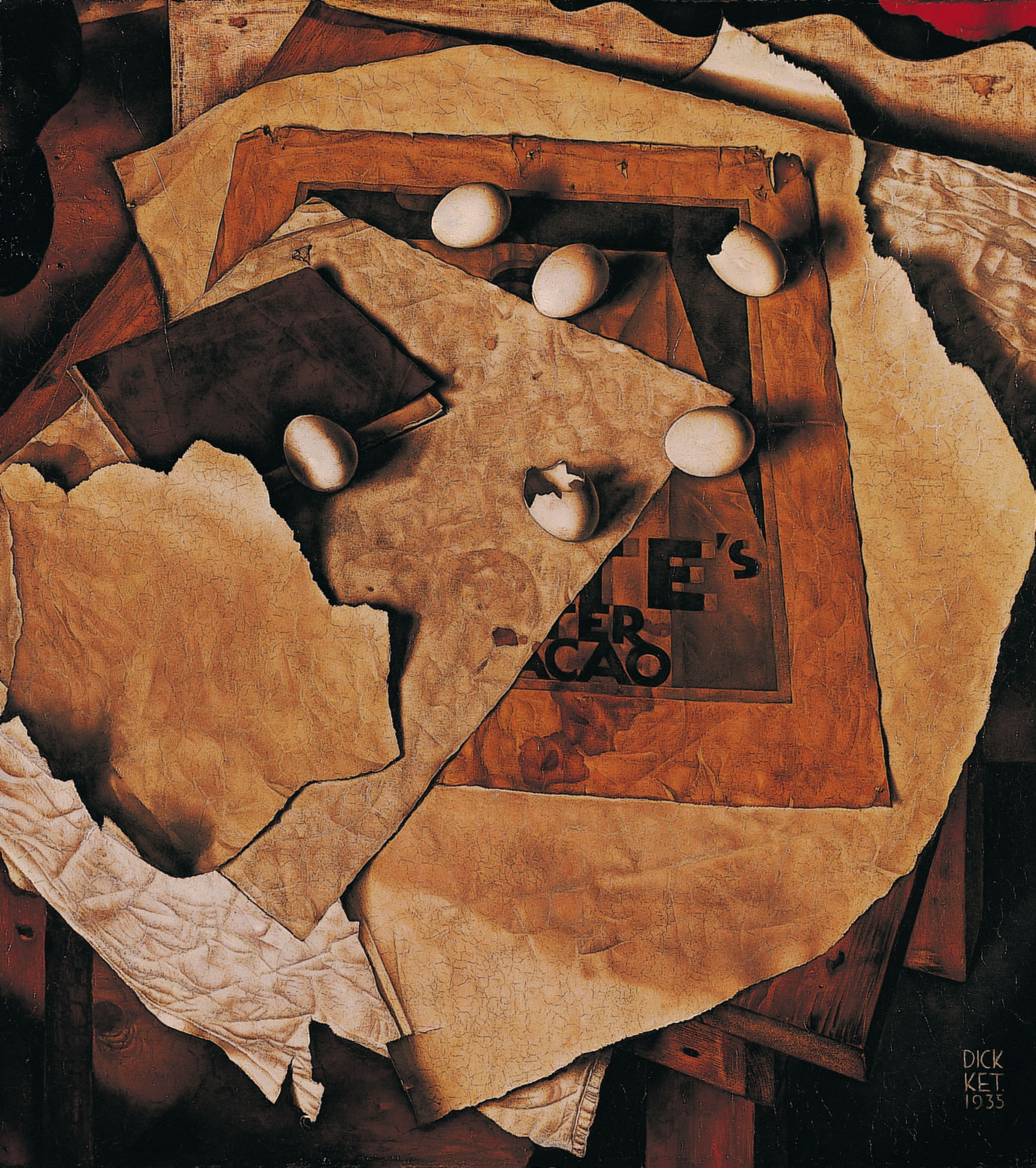 Dick Ket, Still Life with Eggs, 66x61, Dordrechts Museum